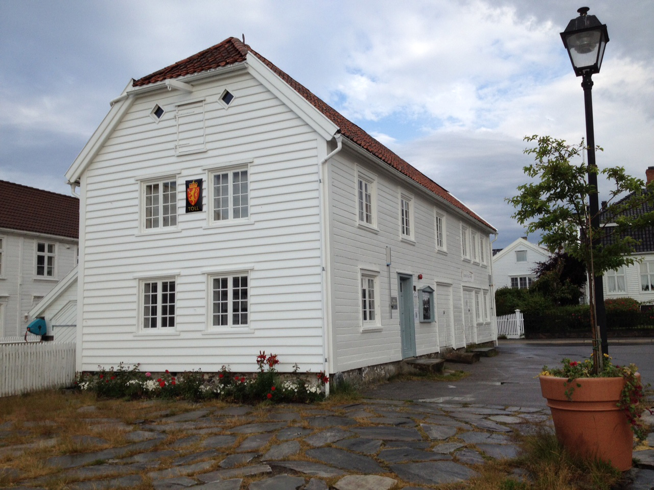 the listed customs house in Lillesand, Norway